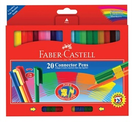 this is the packing of connector pen 20